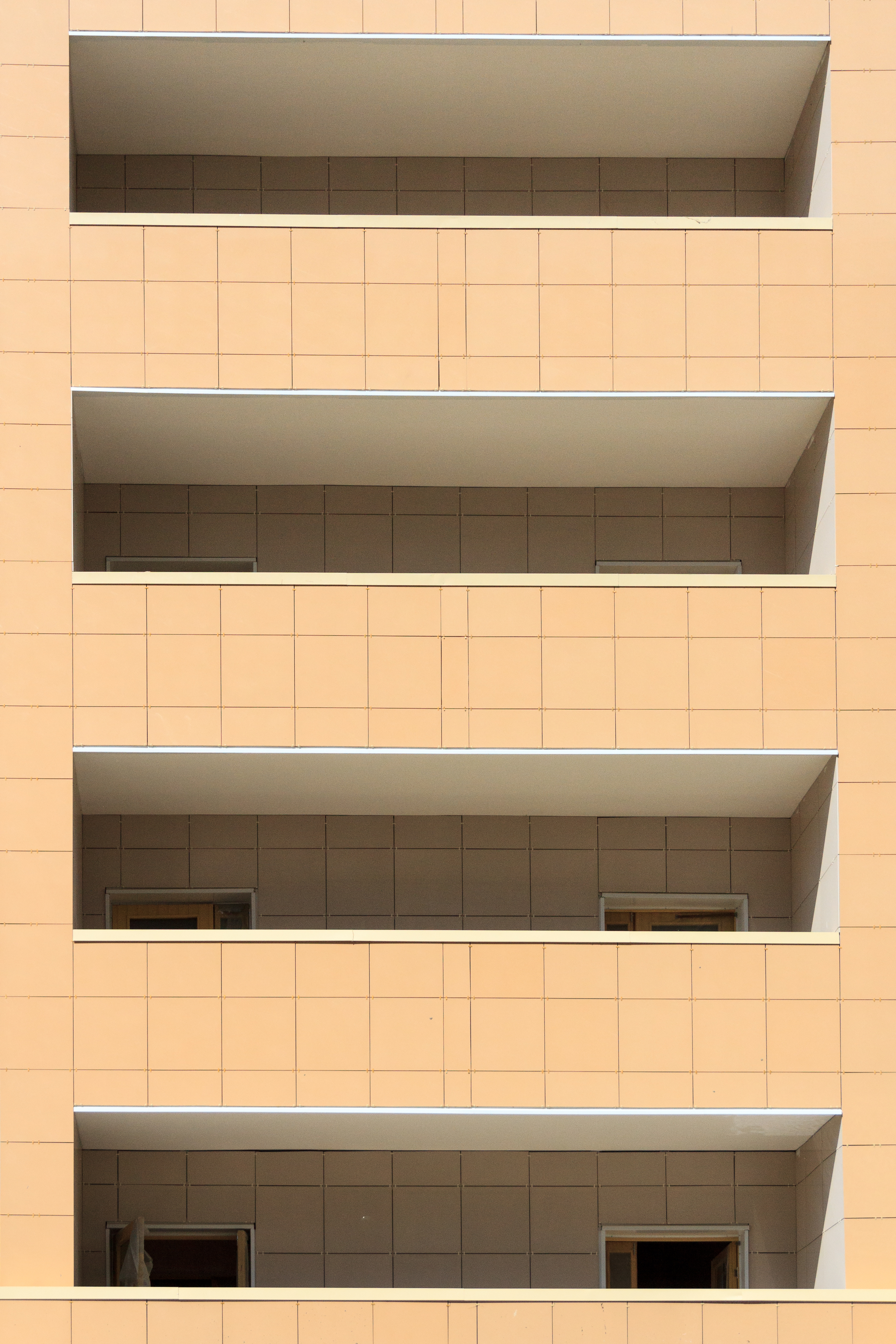 balconies, Podolsk, Russia